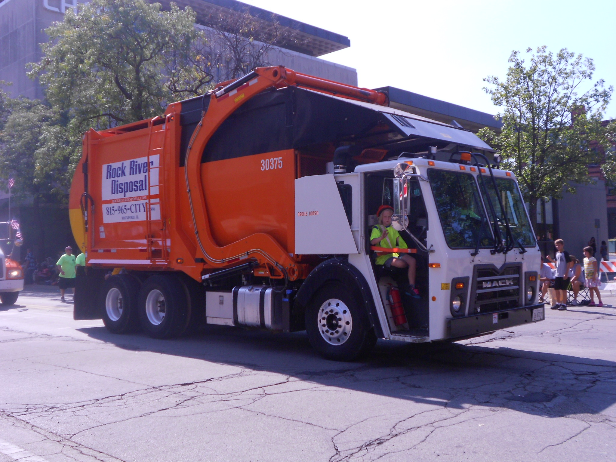 A front 3/4 of a Mack model LR COE refuse truck in Rockford, Illinois. The truck is photographed in the City Labor Day Parade on September 3, 2012.